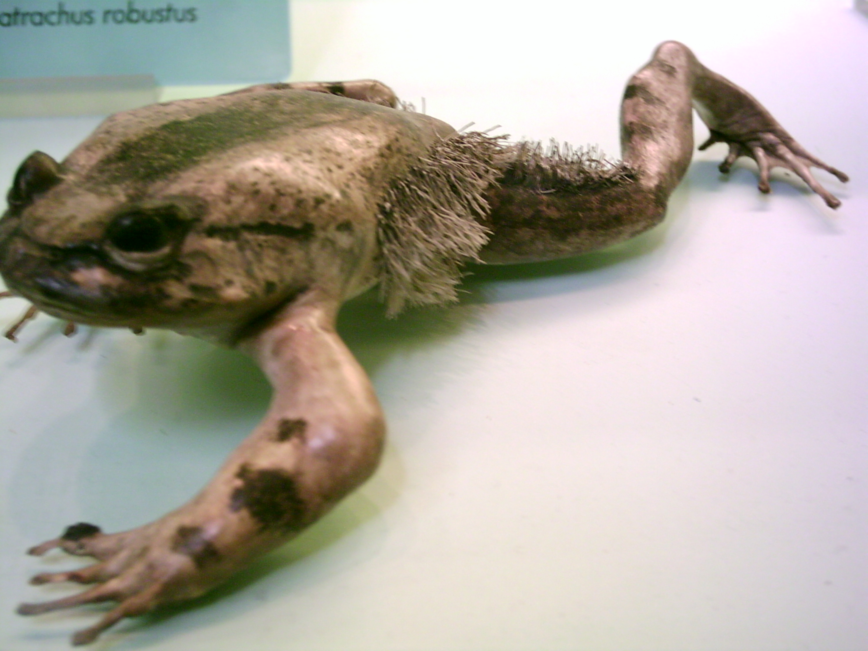 Taxidermied male hairy frog (Trichobatrachus robustus) at the Natural History Museum in London, England.